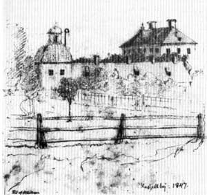 Drawing of Hässelby castle with a part of the orchard in the foreground by the artist Otto Henrik Wallgren (1795-1857) in 1847.